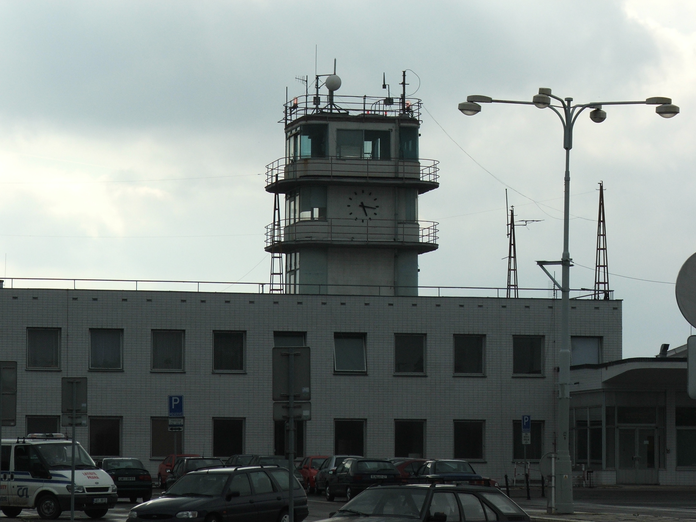 Old airport control tower of Prague Ruzyně airport, Czechia Terminál Jih (South)- now used for general aviation and governemental flights.